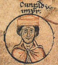 Conrad II, Holy Roman Emperor